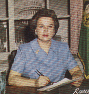 Catherine Dean May, US Representative from Washington